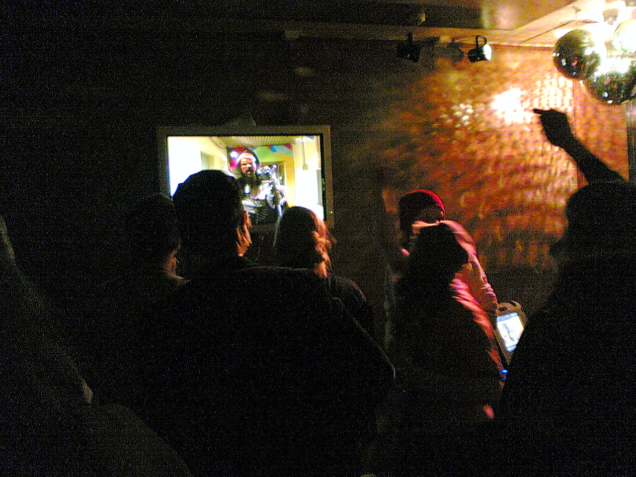 Hybrid posse and friends watching Lordi win the Eurovision song contest at DTM (Don't Tell Mama) bar in Helsinki. May 2006.